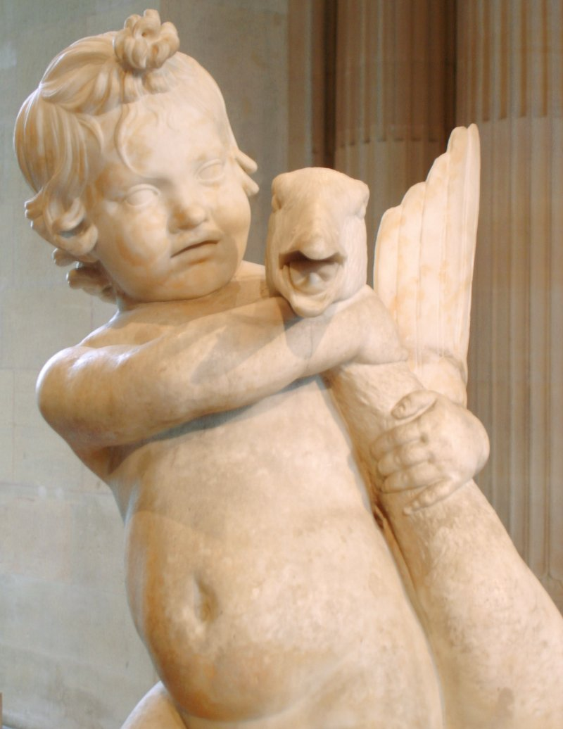 Child playing with a goose, detail. Roman copy (1st–2nd centuries AD) of a Greek original of the 2nd century BC. Marble, found in 1792 in the Quintili Villa, by the Via Appia, not far from Rome. Other copies are now shown in the Glyptothek of Munich and in the Vatican Museums.